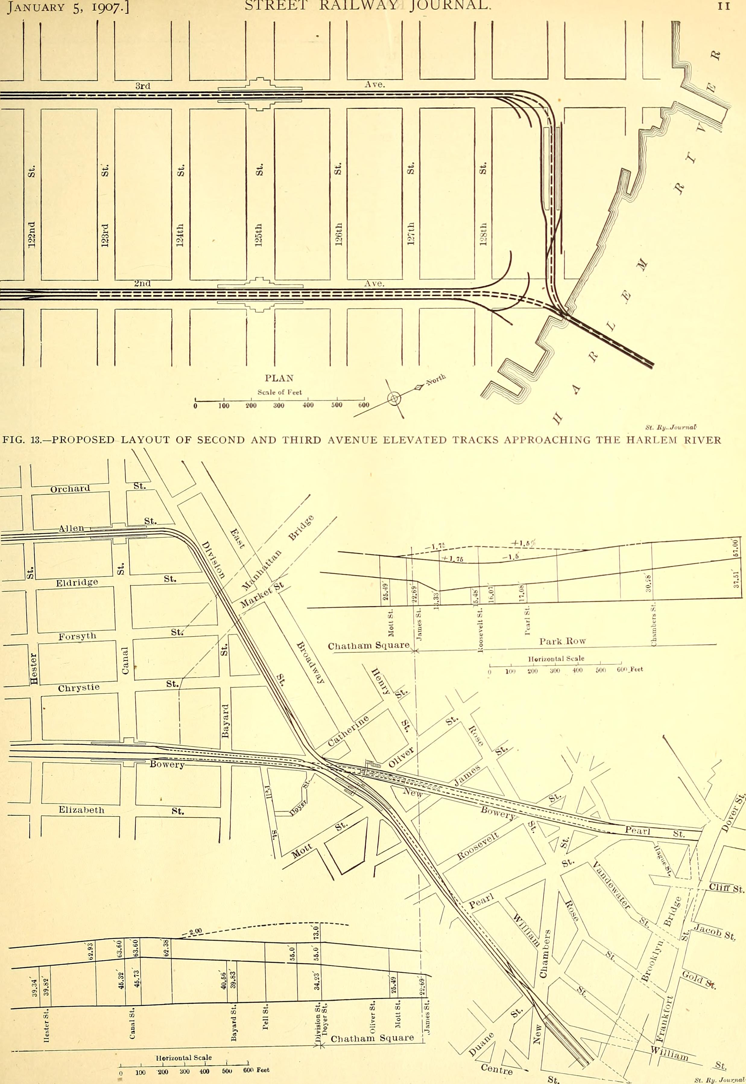 Title: The Street railway journal Year: 1884 (1880s) Authors: Subjects: Street-railroads Electric railroads Transportation Publisher: New York : McGraw Pub. Co. Text Appearing Before Image: tog FIG. 12.—CROSS SECTION OF PROPOSED DOUBLE-DECK STRUCTURE AT I49TH STREETTHIRD AVENUE, BRONX BOROUGH January 5, 1907. STREET RAILWAY JOURNAL Text Appearing After Image: St. Ry. Jourjial FIG. 14.-PROPOSED TRACK LAYOUT IN THE VICINITY OF THE CHATHAM SQUARE JUNCTION AND THE TERMINAL AT BROOKLYN BRIDGE 12 STREET RAILWAY JOURNAL. (Vol. XXIX. No. i. ham Square, would be connected by cross-overs with thepresent main tracks and the gaps in this middle trackfrom Grand Street Station to Ninety-Second Street filledin to make a continuous middle track to I22d Street, atwhich point the structure would be made for four tracks, thetwo inner tracks rising to an elevation of ii ft. at the pro-posed express station at 125th Street and continuing thenceto an upper grade to and across the Harlem River to per-mit the east local track to pass under the same to the termi-nal at 129th Street and Third Avenue without a grade cross-ing. The express track would be provided with an expressstation at Twenty-Third Street between First and SecondAvenues, elevated like those on the Third Avenue line. The proposed double-track bridge across the HarlemRiver would carry two tracks on